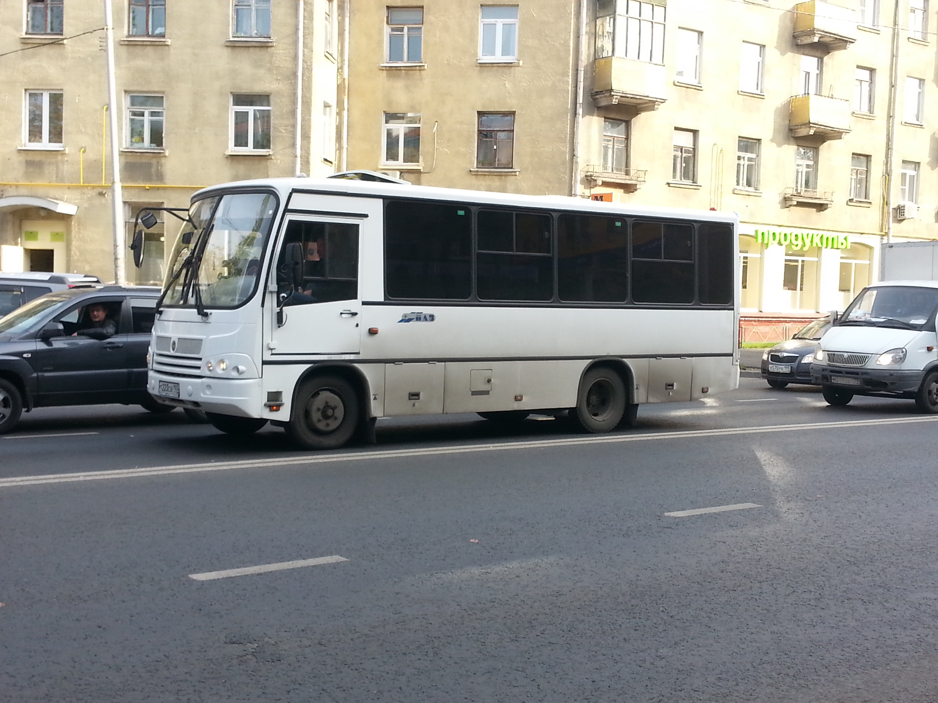 PAZ-3204 in Moscow, on the street Bozhenko